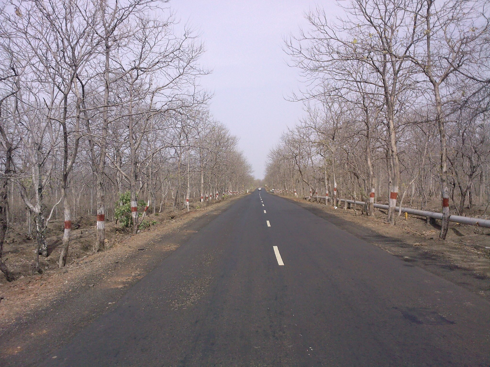 nursary road, Yavatmal